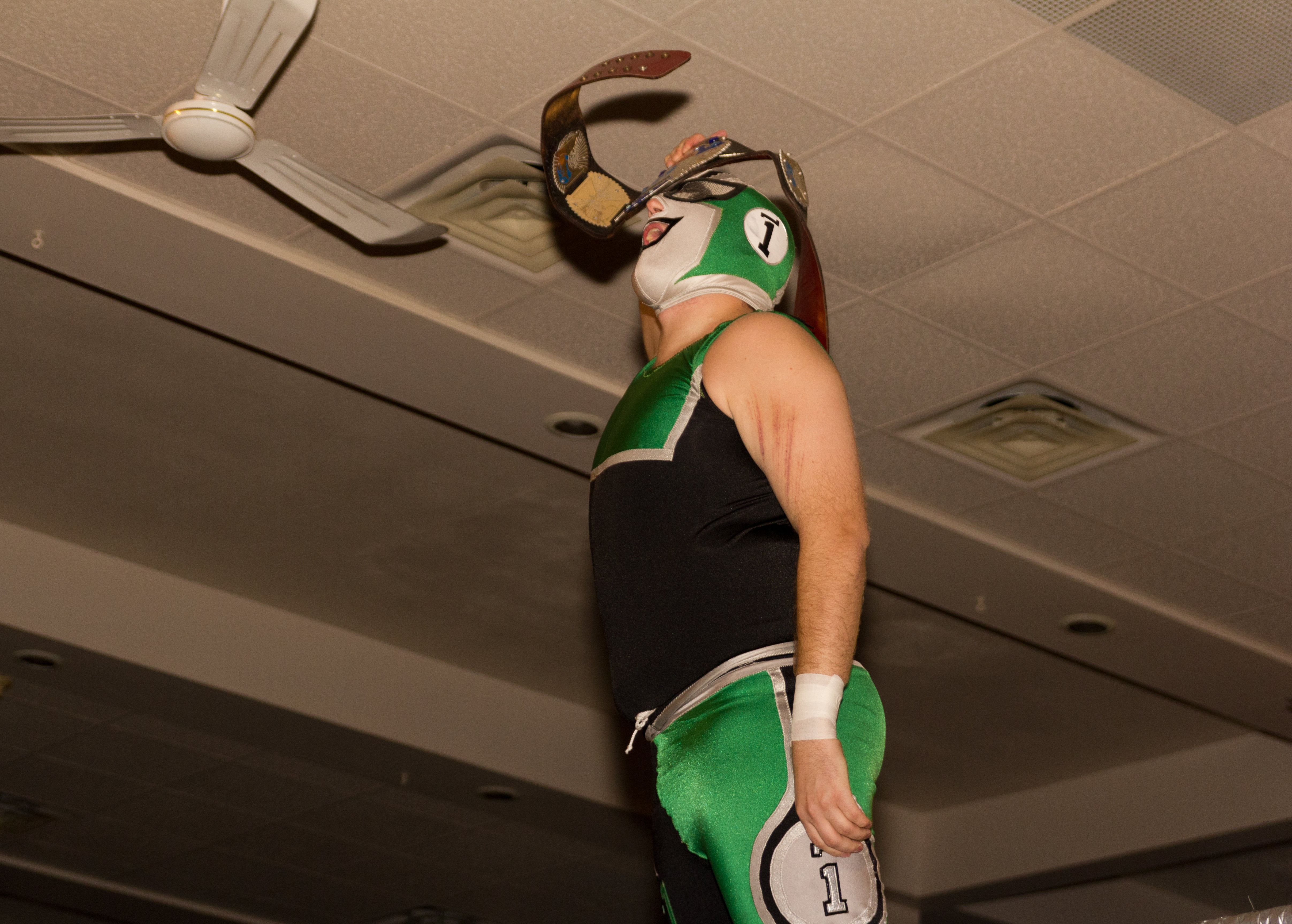 Player Uno (Nicolas Dansereau) as Alpha-1 Wrestling Tag Team Champion